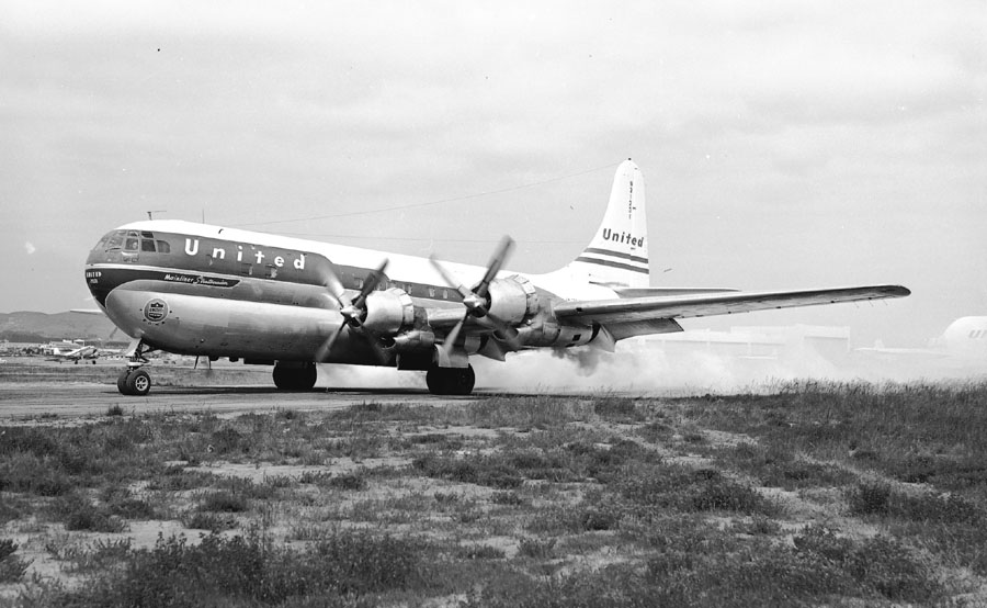 A characteristic of the 377 engines. Taxiing out for takeoff at San Francisco.